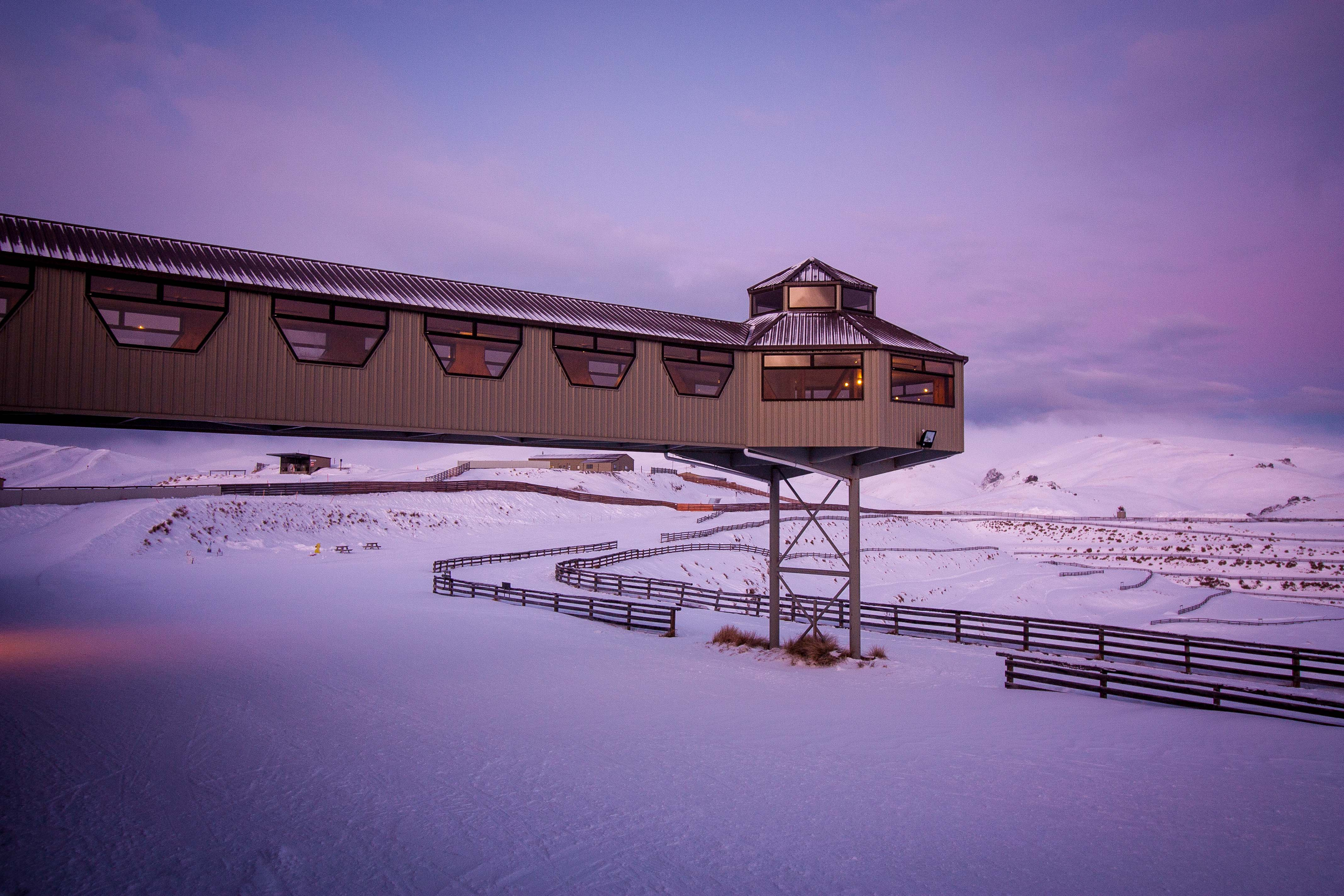 View of the main Snow Farm building during sunset in winter.